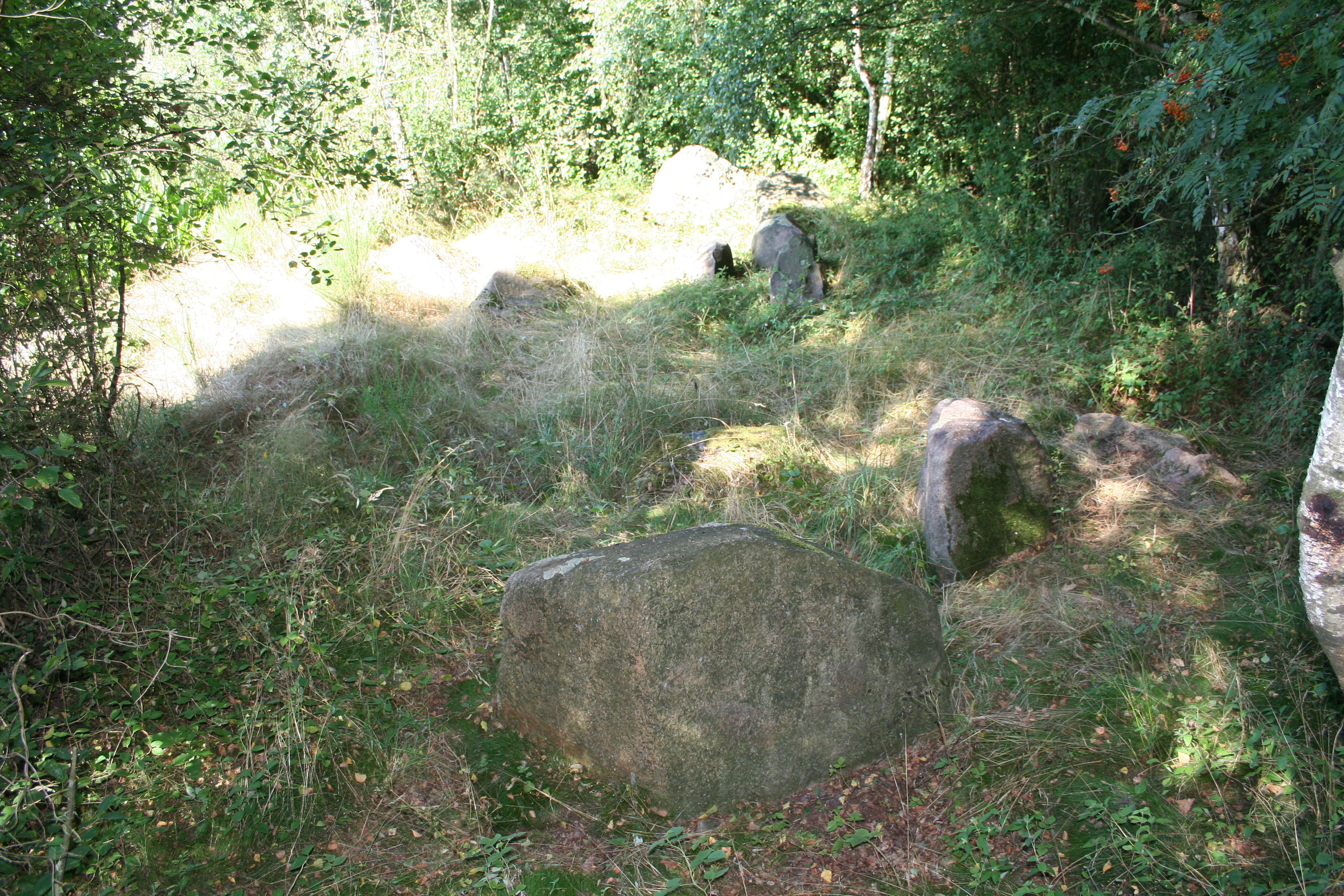 Megalithic tomb Holzhausener Kellersteine 2